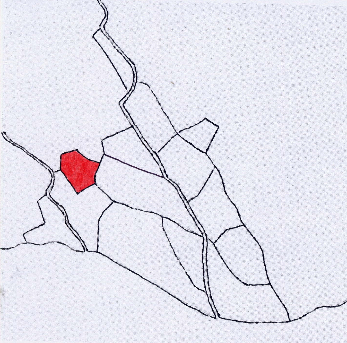 Verkhnaya Mamayka microdistrict in Tsentralny City district of Sochi